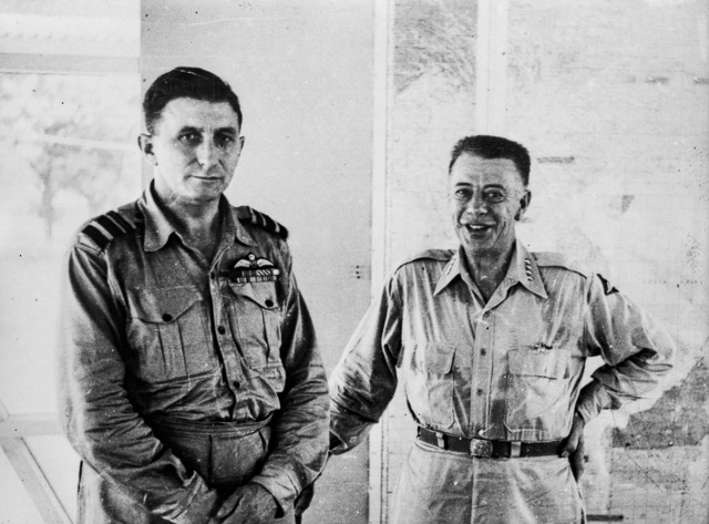 AWM Caption: Manila, Philippines. C. 1945-07. Air Vice Marshal (AVM) George Jones CB CBE DFC, the Chief of Air Staff RAAF (left) conferring with General (Gen) G. C. Kenney, the Commanding General of Far East Air Forces (right) during AVM Jones's visit to Gen Kenney's Headquarters.